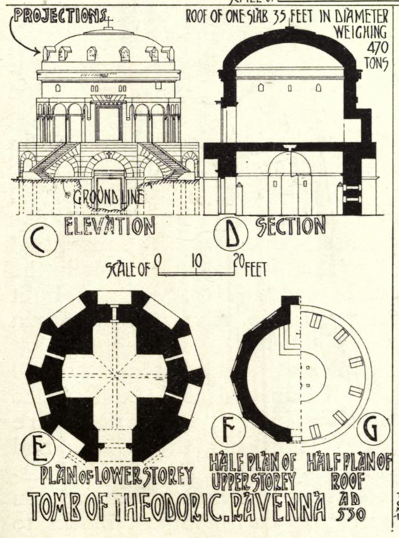 Theodoric mausoleum cross-sections and plans from "A history of architecture on the comparative method" by Fletcher, Banister, 1833-1899